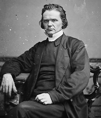 1 negative : glass, wet collodion, b&w ; 11 x 8.5 cm.